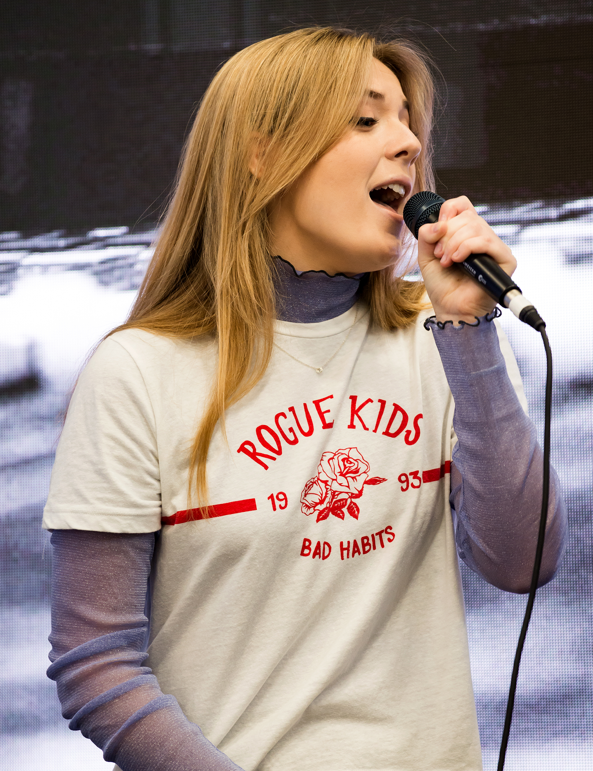 Em Rossi performing live in the Sennheiser booth at the Winter NAMM Show in Anaheim California on Sunday, January 28, 2018.